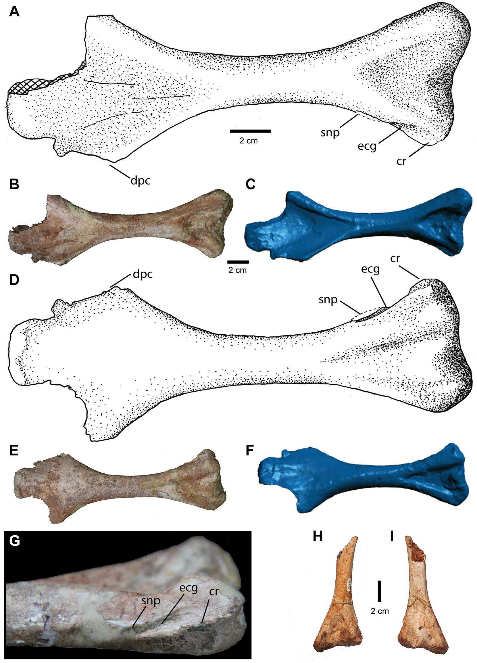 Fig 13. Humerus of Carnufex carolinensis. NCSM 21558, right humerus in (A), (B), (C), anterior view; (D), (E), (F), posterior view. (A), (D), stipple drawing, (B), (E), photograph, and (C), (F), 3D surface scan rendering. (G) Close-up photograph of ectepicondylar region in NCSM 21558. Left humerus (NCSM 21623, referred) in (H), anterior and (I), posterior view. Abbreviations: cr, crest; dpc, deltopectoral crest; ecg; ectepicondylar groove; snp, supinator process.